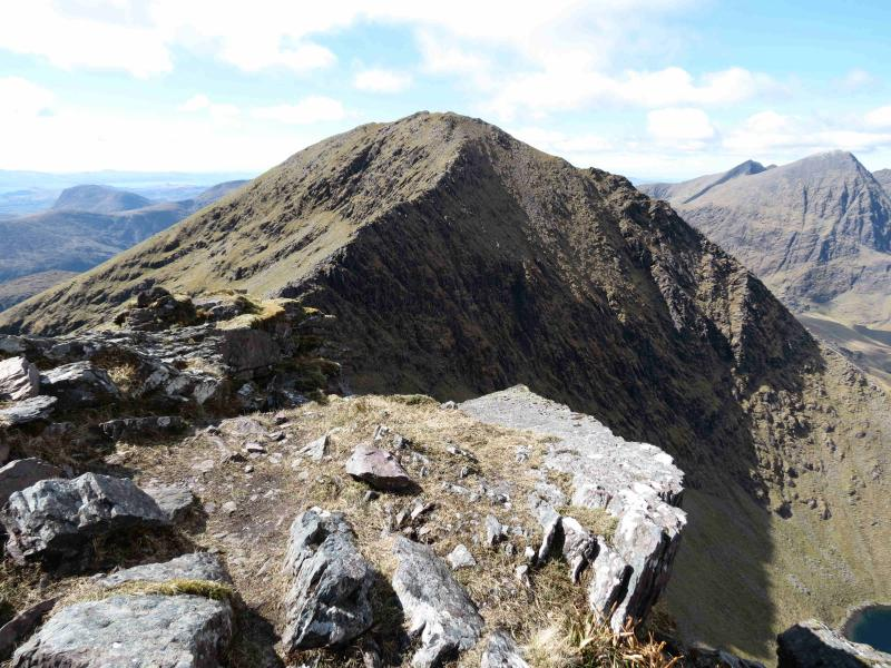 Cnoc na Peiste summit taken from The Big Gun summit